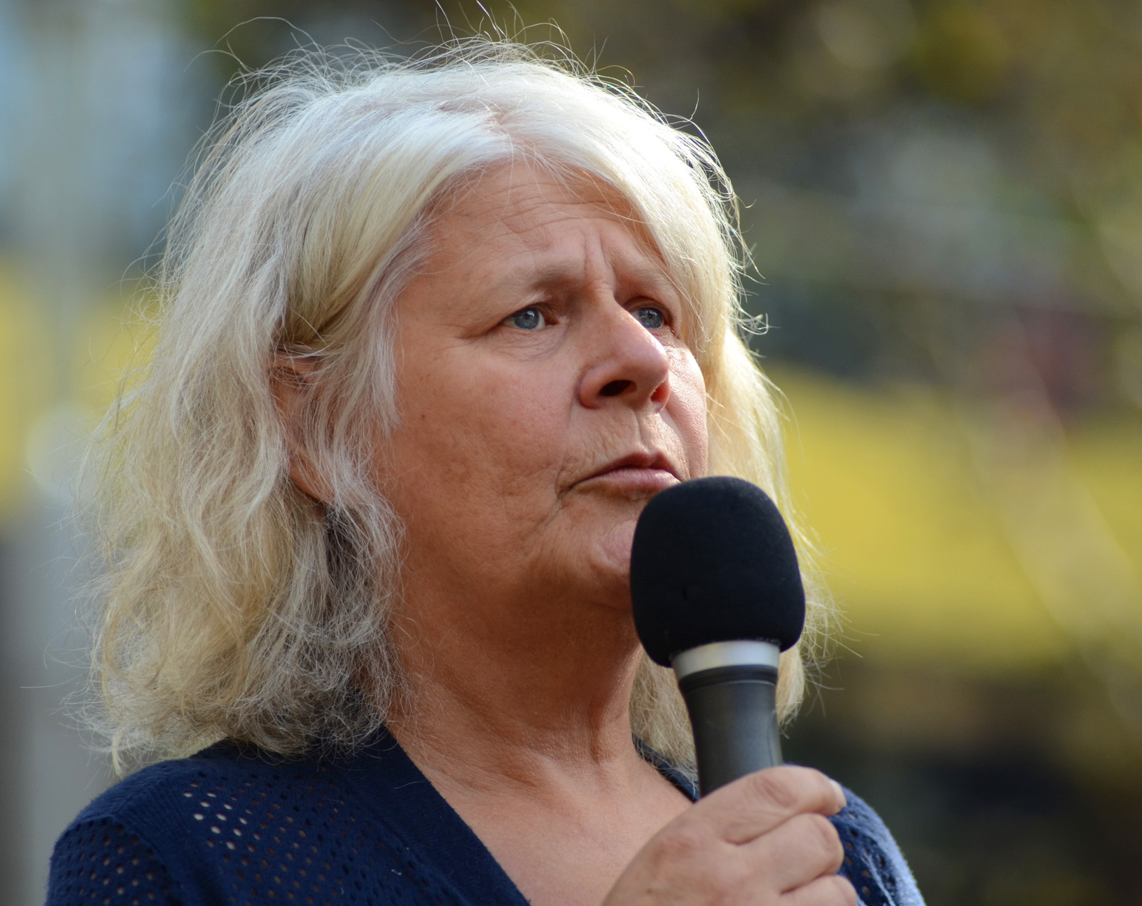 Penny Whetton at the March for Science - Melbourne 2017